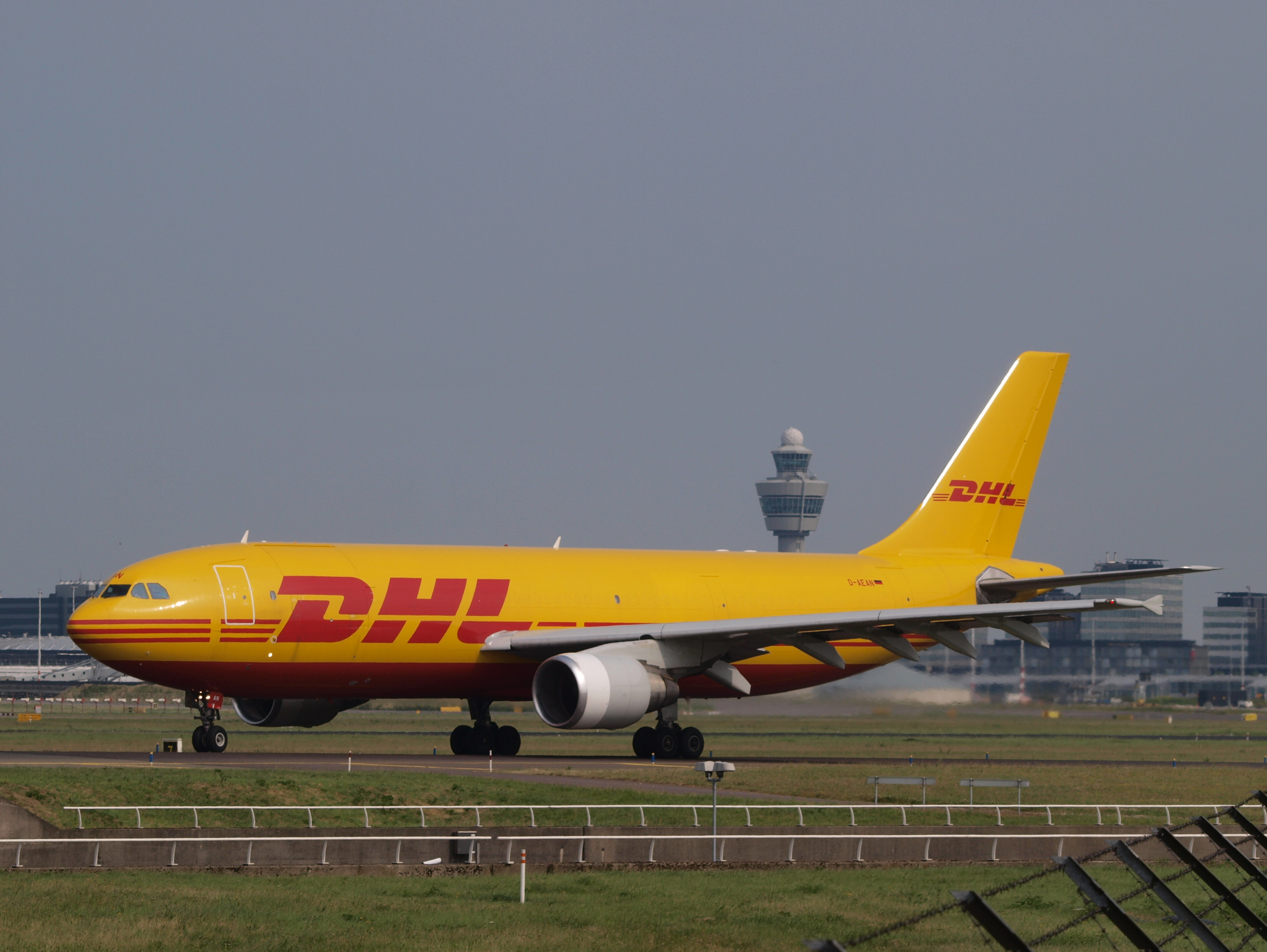 Photographed at Schiphol, Amsterdam airport, (IATA: AMS, ICAO: EHAM), the Netherlands.